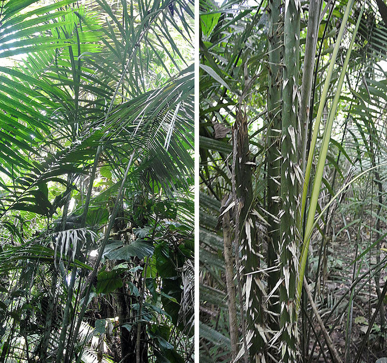 The thorny Chambira Palm of the western Amazon Basin. A source of edible fruit, thatching material and fibers. Sacha Reserve, eastern Ecuador.